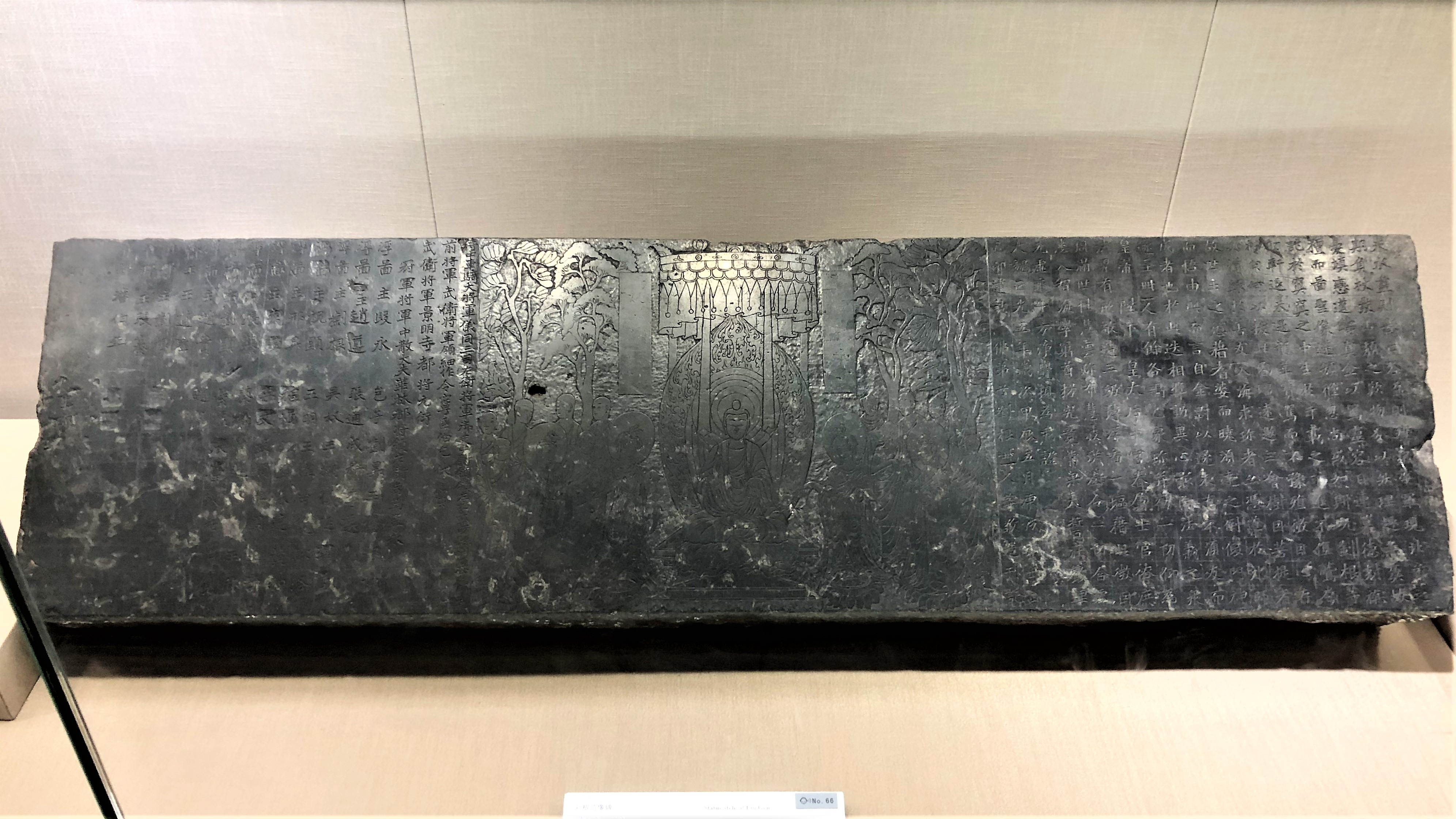 Statue stele of Liu Gen. A.D.524. Liu Gen stele was originally embedded into a brick pagoda. Its inscription ca be devided into three sections: scribed painting representing Sakyamuni preaching Buddhism in the middle and information concerning the construction and erection of this stele on the left and on the right.